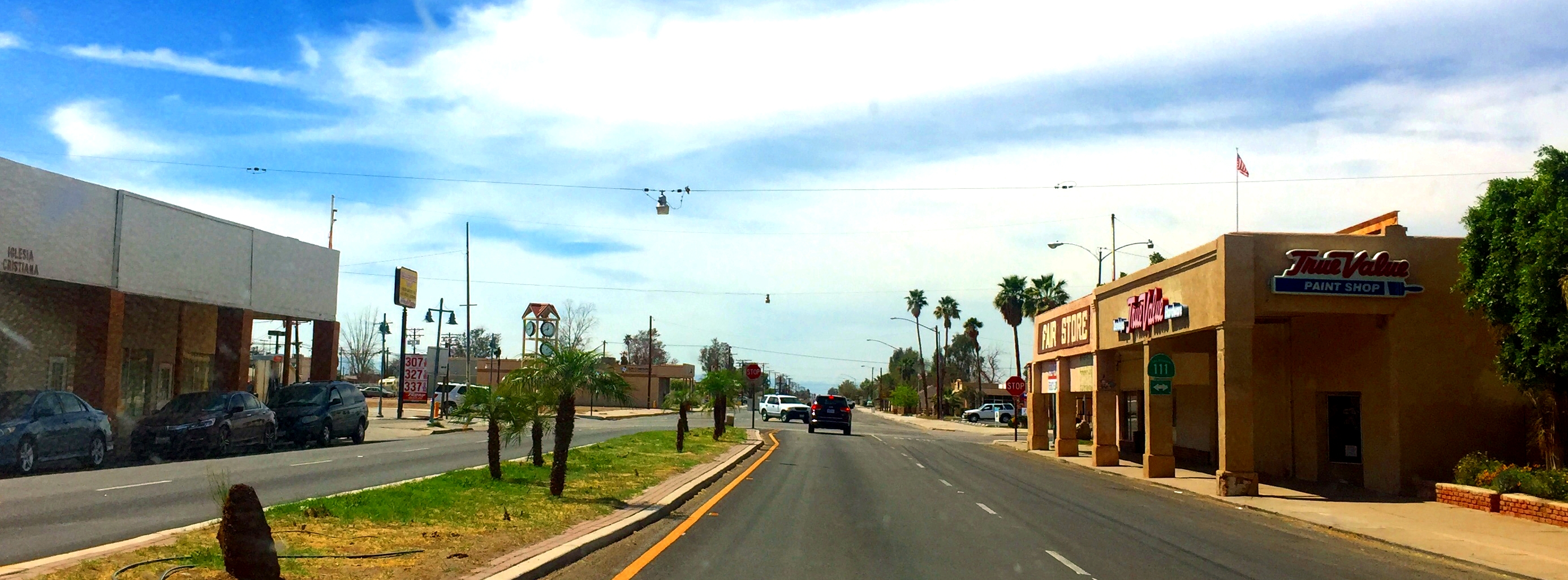 Downtown Calipatria, California at East Main Street (CA SR 115) and North Sorensen Avenue (CA SR 111). View from the westbound lane of East Main Street, looking west.This photograph was taken with an iPhone 6S mobile phone and edited (color balance, saturation, brightness and contrast) using ArcSoft Photostudio 5.5